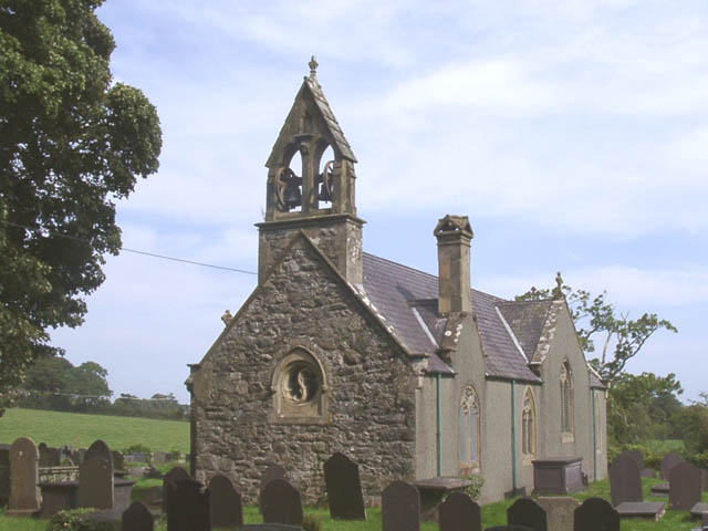 Eglwys Sadwrn Sant, Llansadwrn. The church of St. Sadwrn has one of the earliest stone memorials in Wales. Inscribed to Saturnius and his saintly wife dating from AD530.